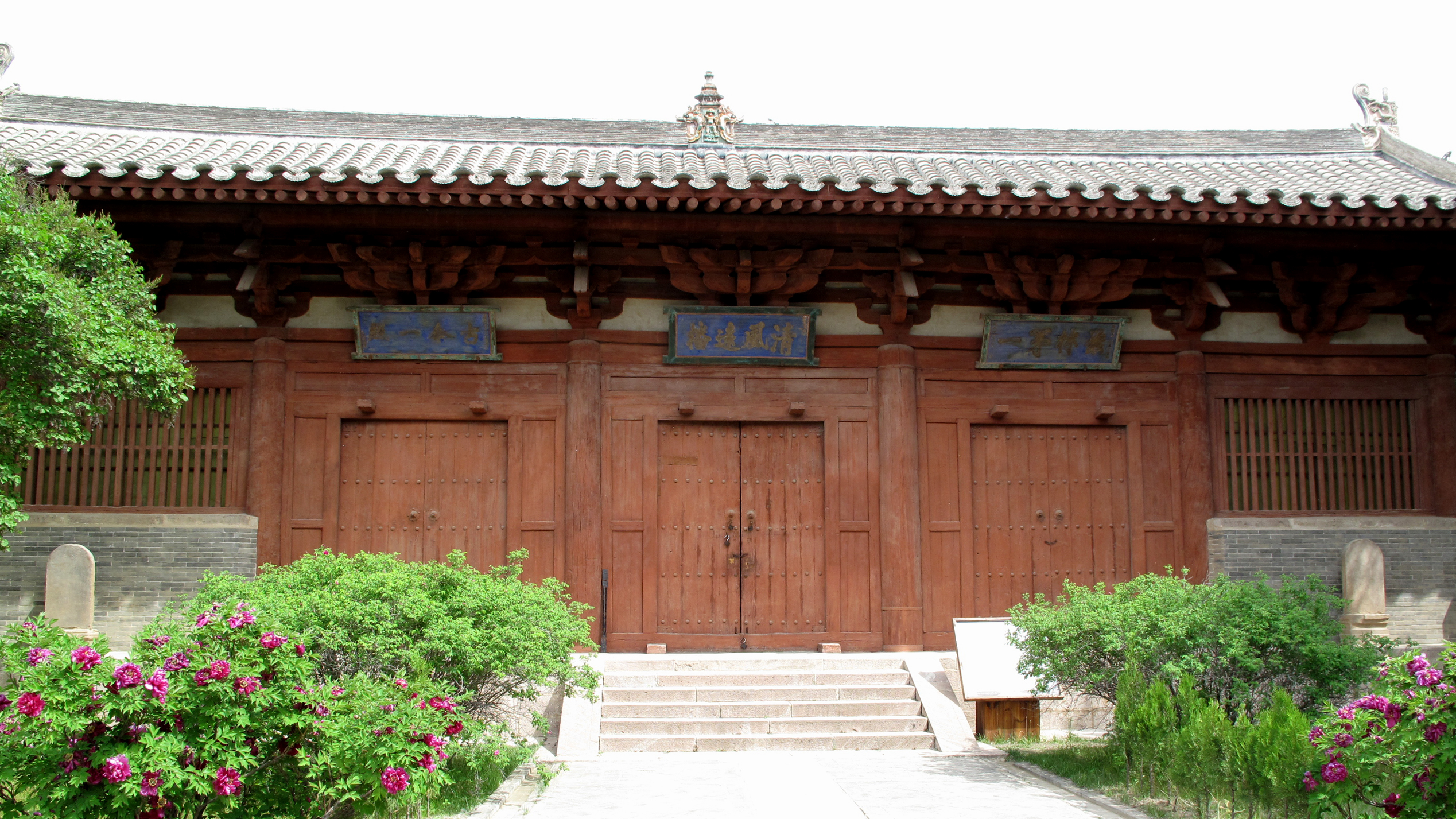 Manjusri Hall. Foguang Si The view here shows some details of the bracketing. The hall's roof, unlike most examples of major temple buildings, is not hipped. Instead it is a fold-over gable roof that looks like an inverted "V" in cross-section. Inside, the roof is supported by trusses. This is very unusual for Chinese temple buildings.